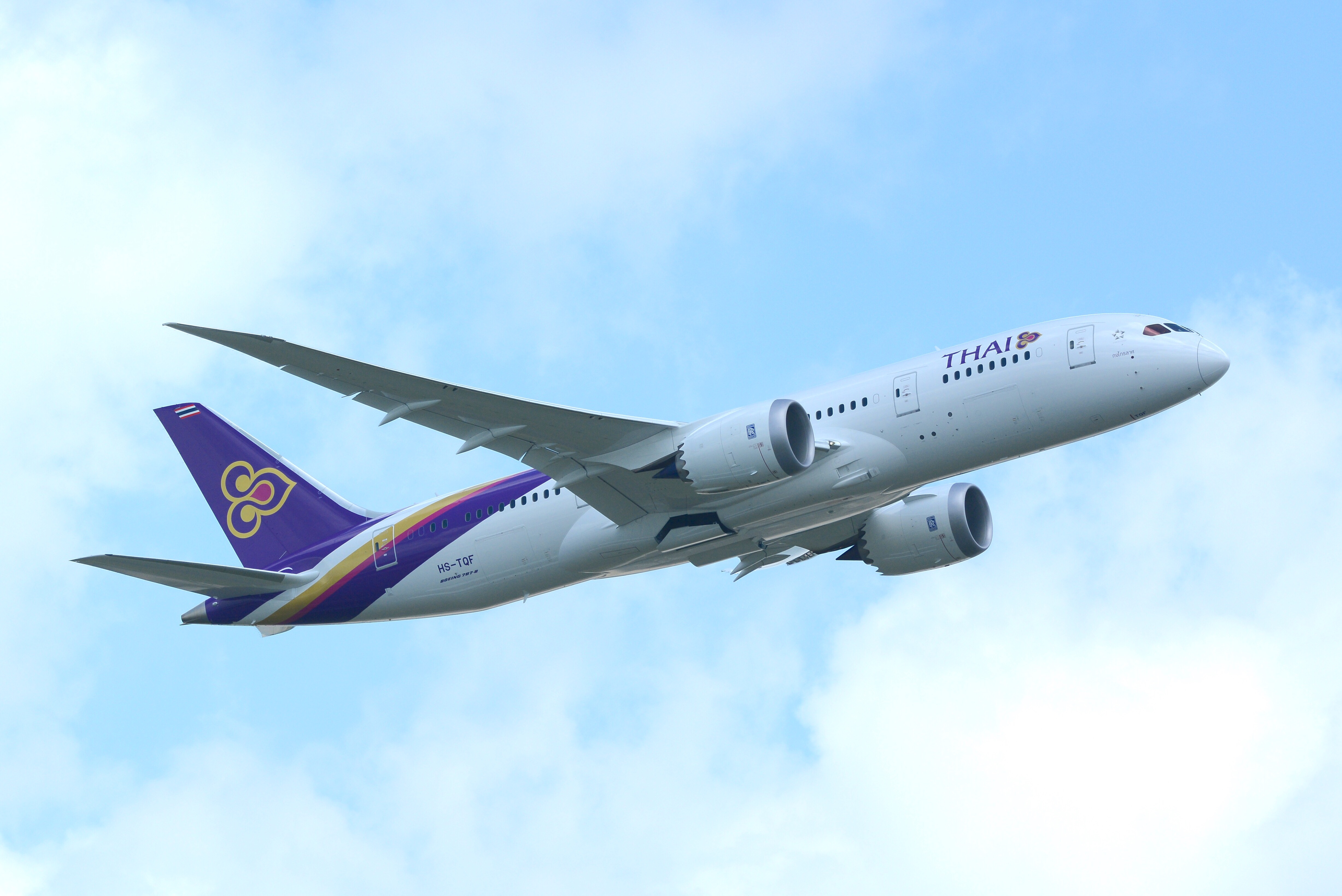 Thai Airways, Boeing 787-8 HS-TQF NRT